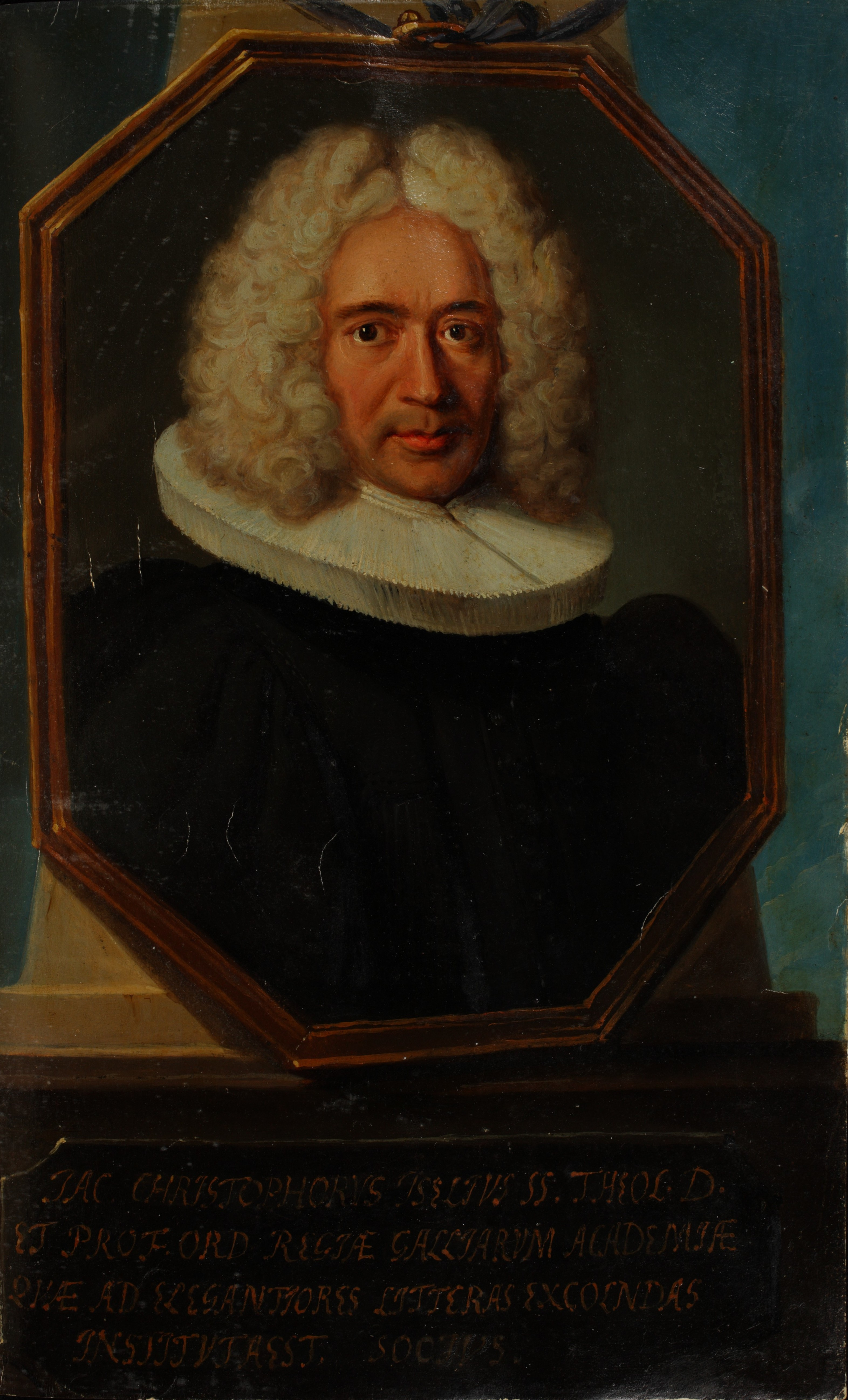 The Matriculation Register of the Basel Rectorate, recorded in manuscript form from 1460 to 2000, contains annual information notices added by each successive rector as well as lists of enrolled students. The rich book decoration in the first three volumes is particularly notable. The work of 3 centuries, it is easily datable due to the chronogical order in which it was added and thus provides a welcome demonstration of the art of miniature painting in Basel.